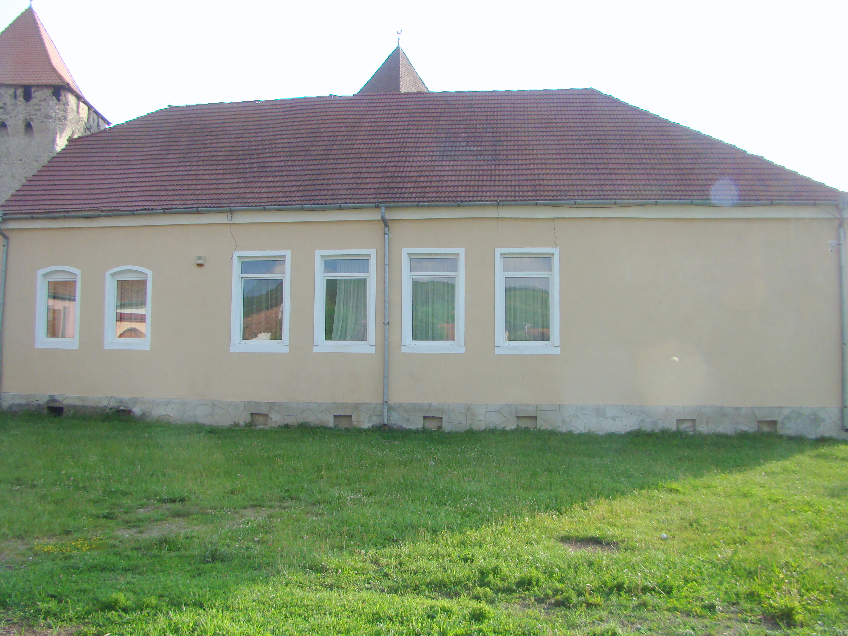 Fortified church in Cața, Braşov County, Romania